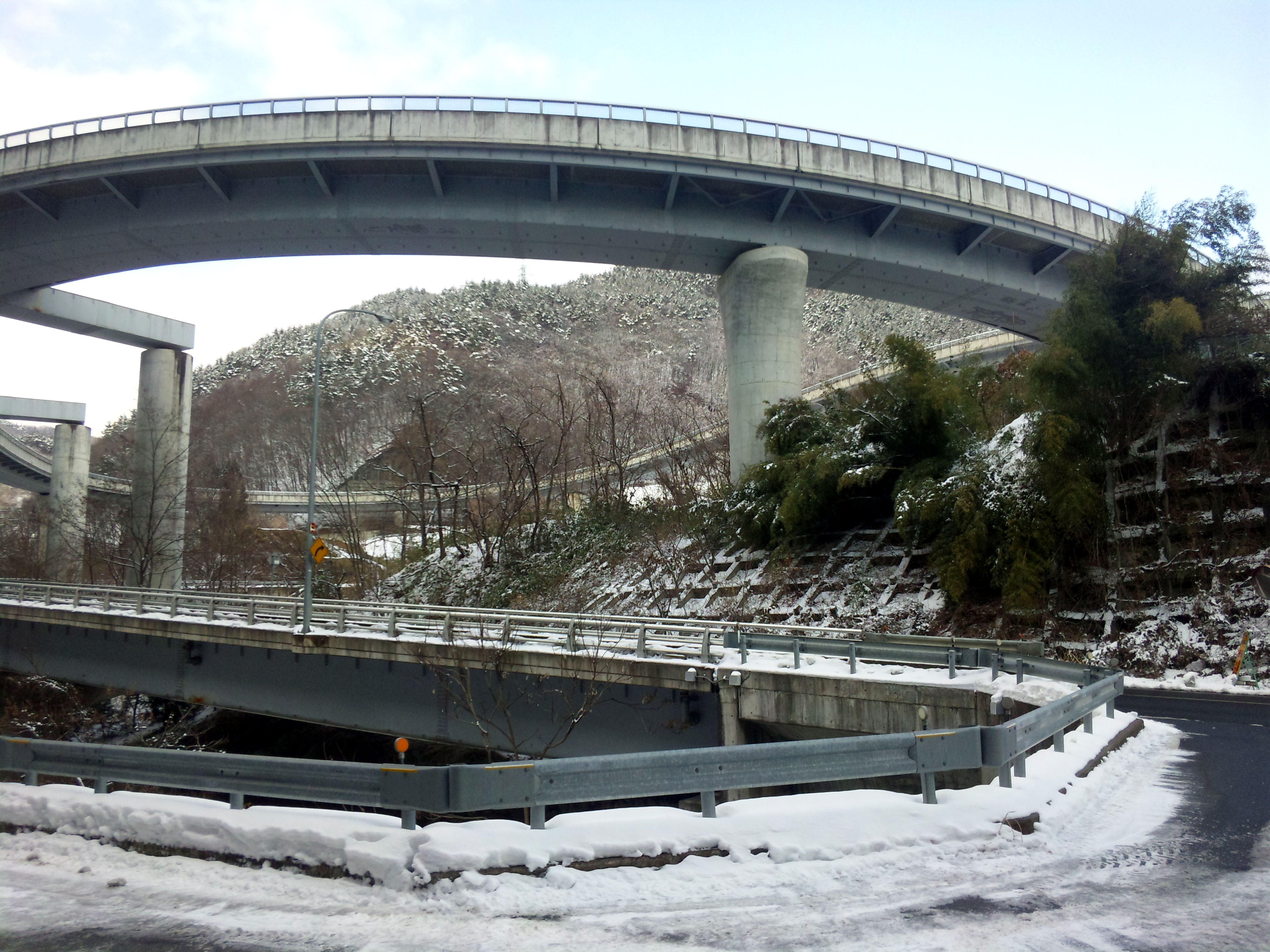 The Shinkoji Loop Bridge on the Asakawa Loop Line